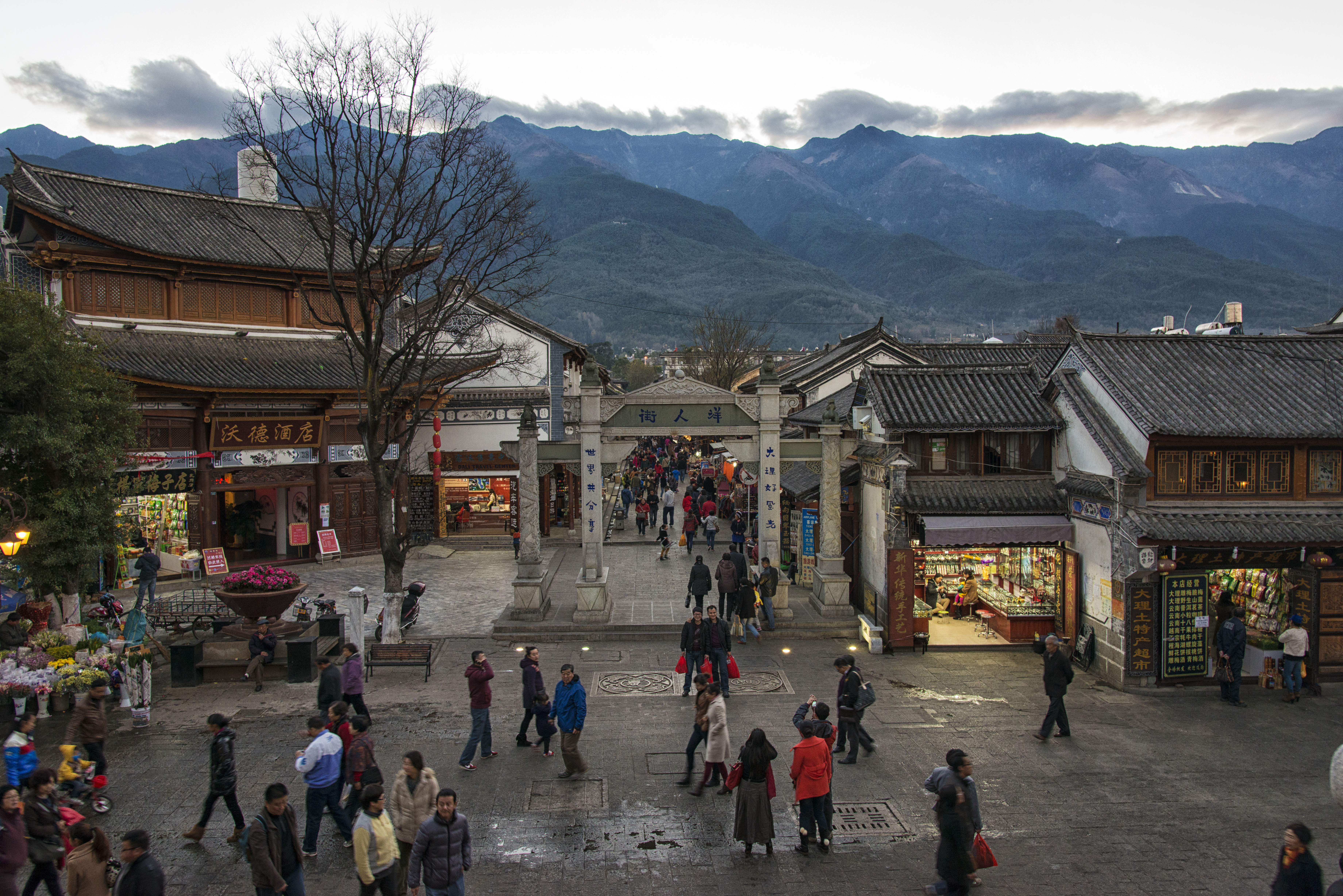 dali old town yunnan china 2012 yang ren jie